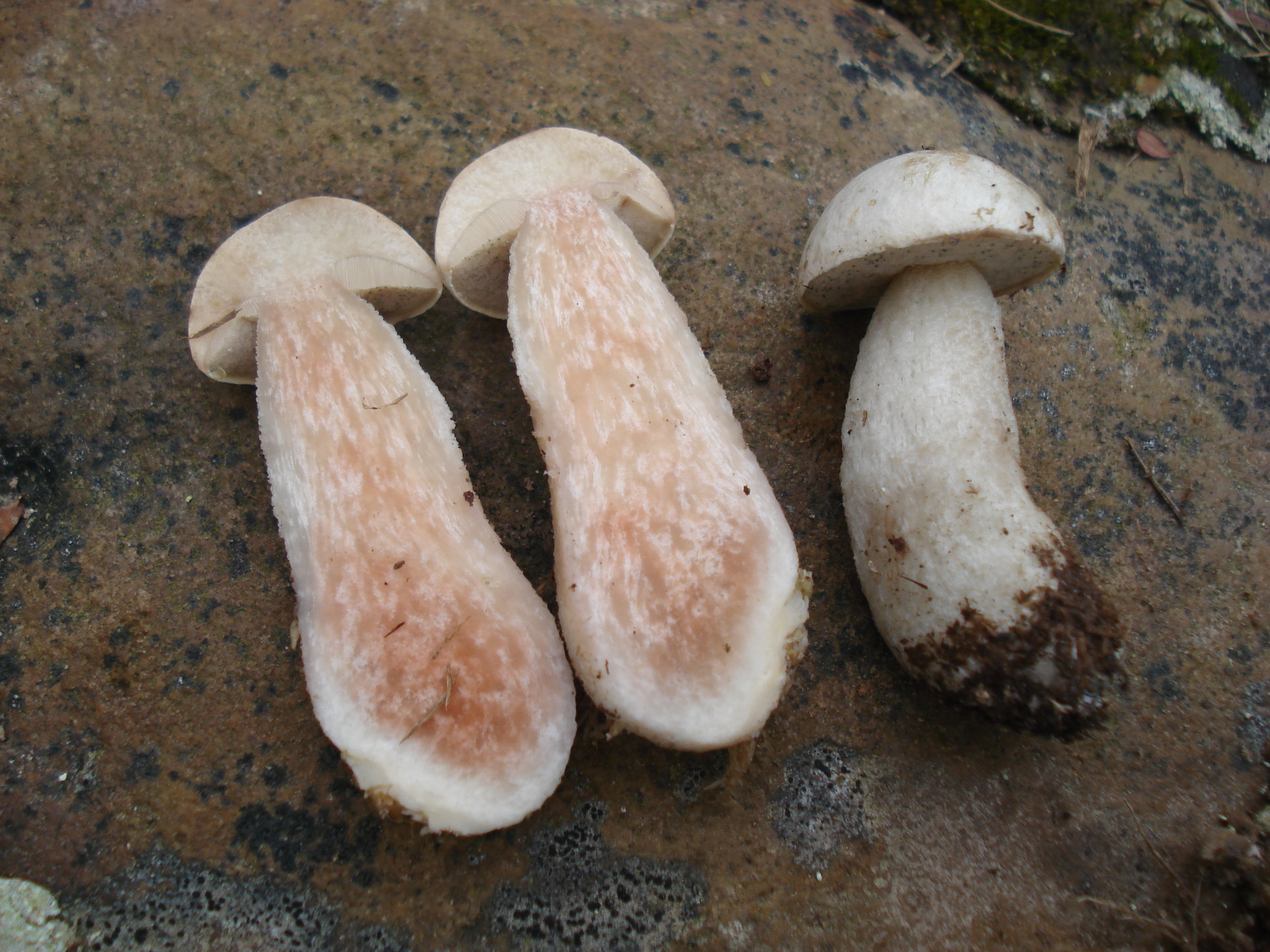 Fruit bodies of the bolete fungus Leccinum holopus var. americanum A.H. Sm. & Thiers. Specimen bisected to show reddish staining reaction typical of this variety. Photographed in Splashdam Pond, Pennsylvania, USA. "Notes: KOH on cap quickly pink then to gray in 2-3 seconds."